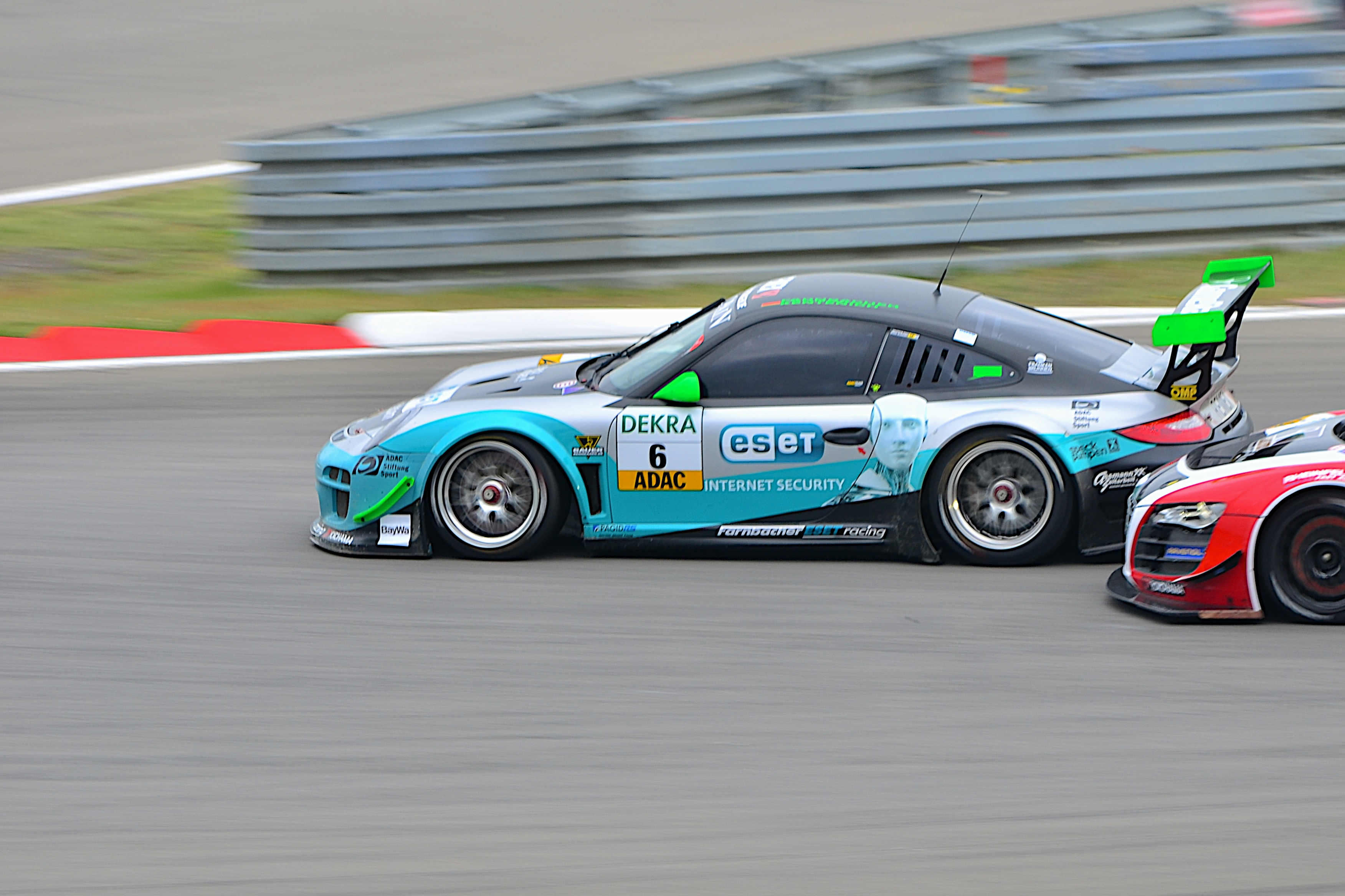 Photo taken during the 13th run of the ADAC GT Masters Championship at the Nürburgring Grand Prix Course. Driver: Mario Farnbacher for Farnbacher ESET Racing